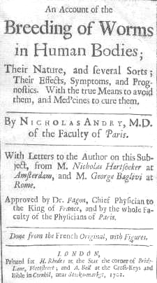 Title page of English translation of Nicolas Andry's An Account of the Breeding of Worms in Human Bodies, London, 1701